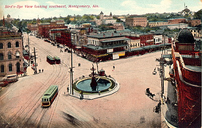 Postcard of Montgomery, AL: Bird's-Eye view looking southeast